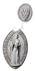 Mahaut of Brabant